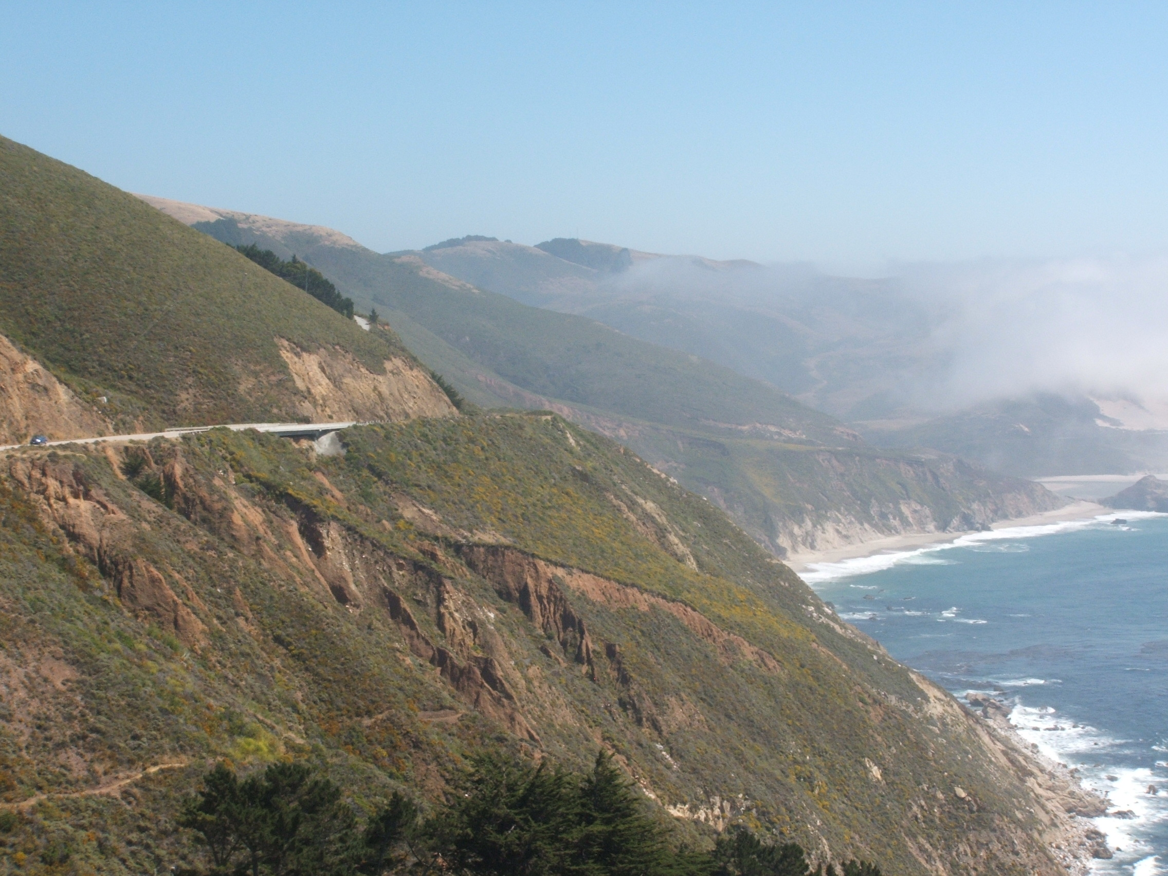 Big Sur coast, with Highway 1 and hiking trail, California. Coastal sage scrub plant community tapestry on slopes.